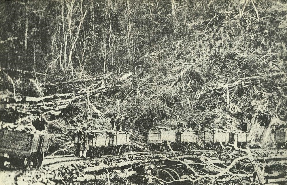 The Dun Mountain railway. Trucks were pulled up the grade by horses, and descended by gravity. Nelson Historical Society